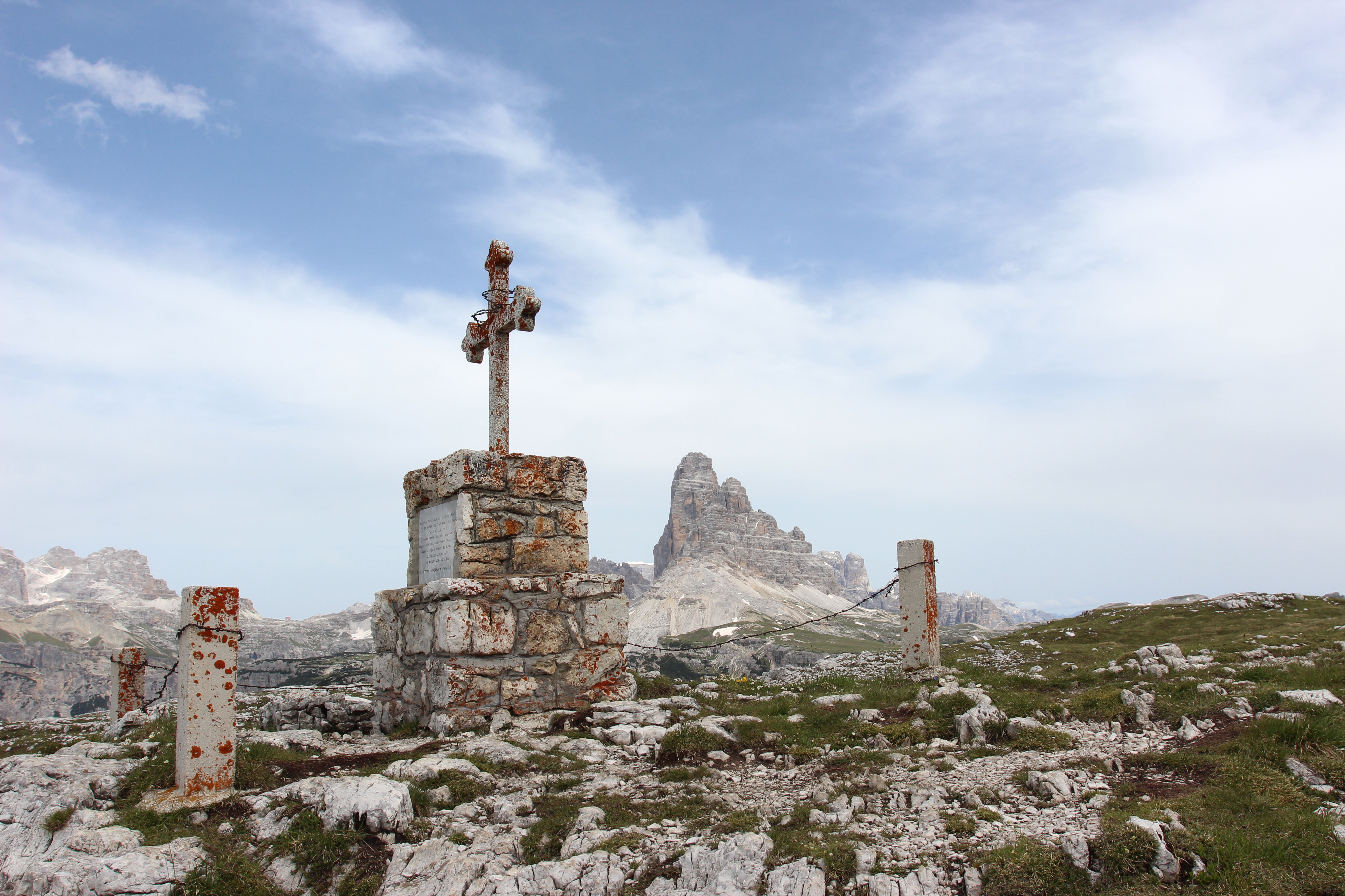 The Monte Piana, a mountain in northern Italy.